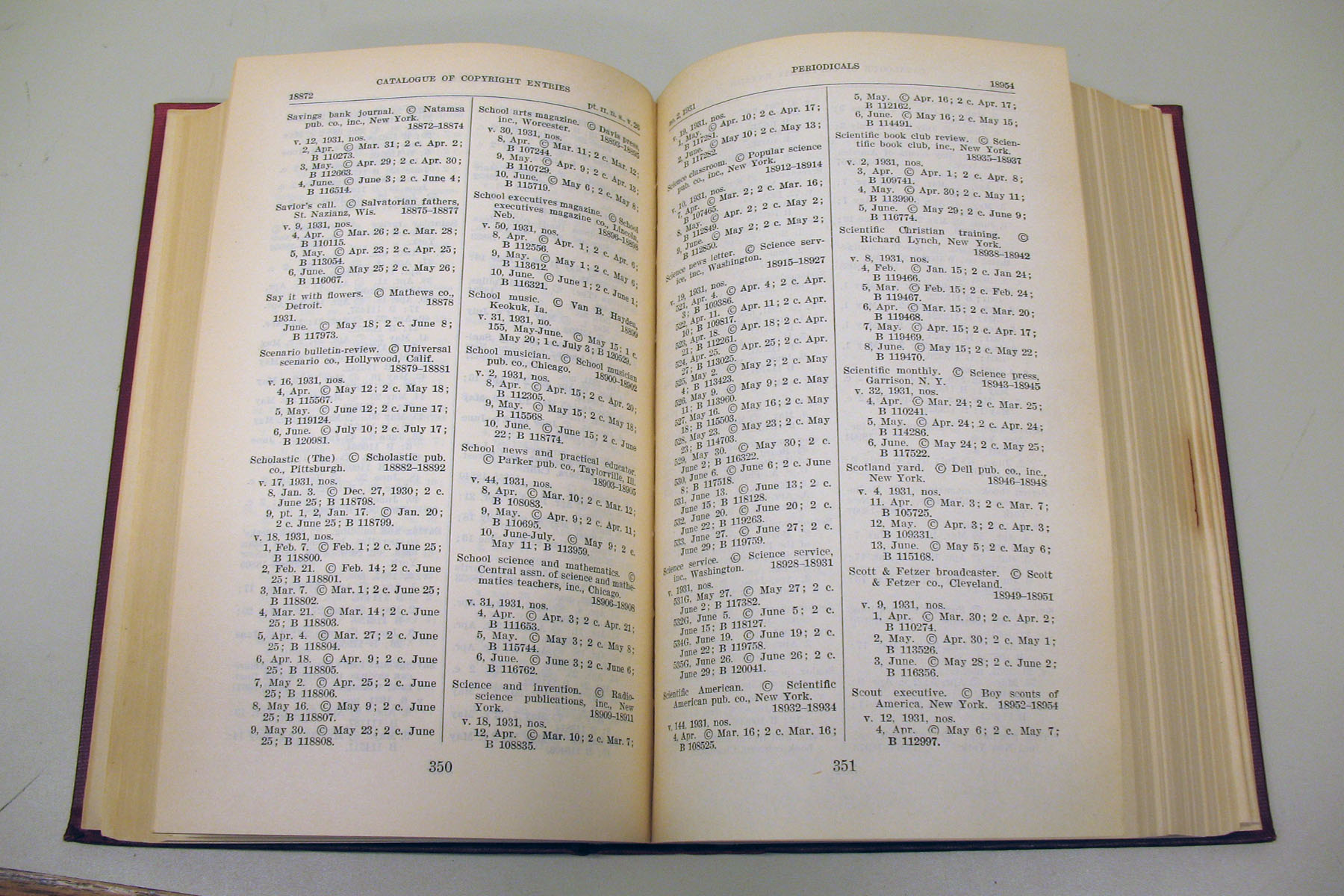 Copyright catalogs at the Library of Congress. Located in room LM-404 of the James Madison Memorial Building, Washington DC.